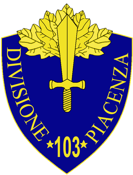 103a Divisione Fanteria Piacenza insignia, Regio Esercito, Italy, WWII